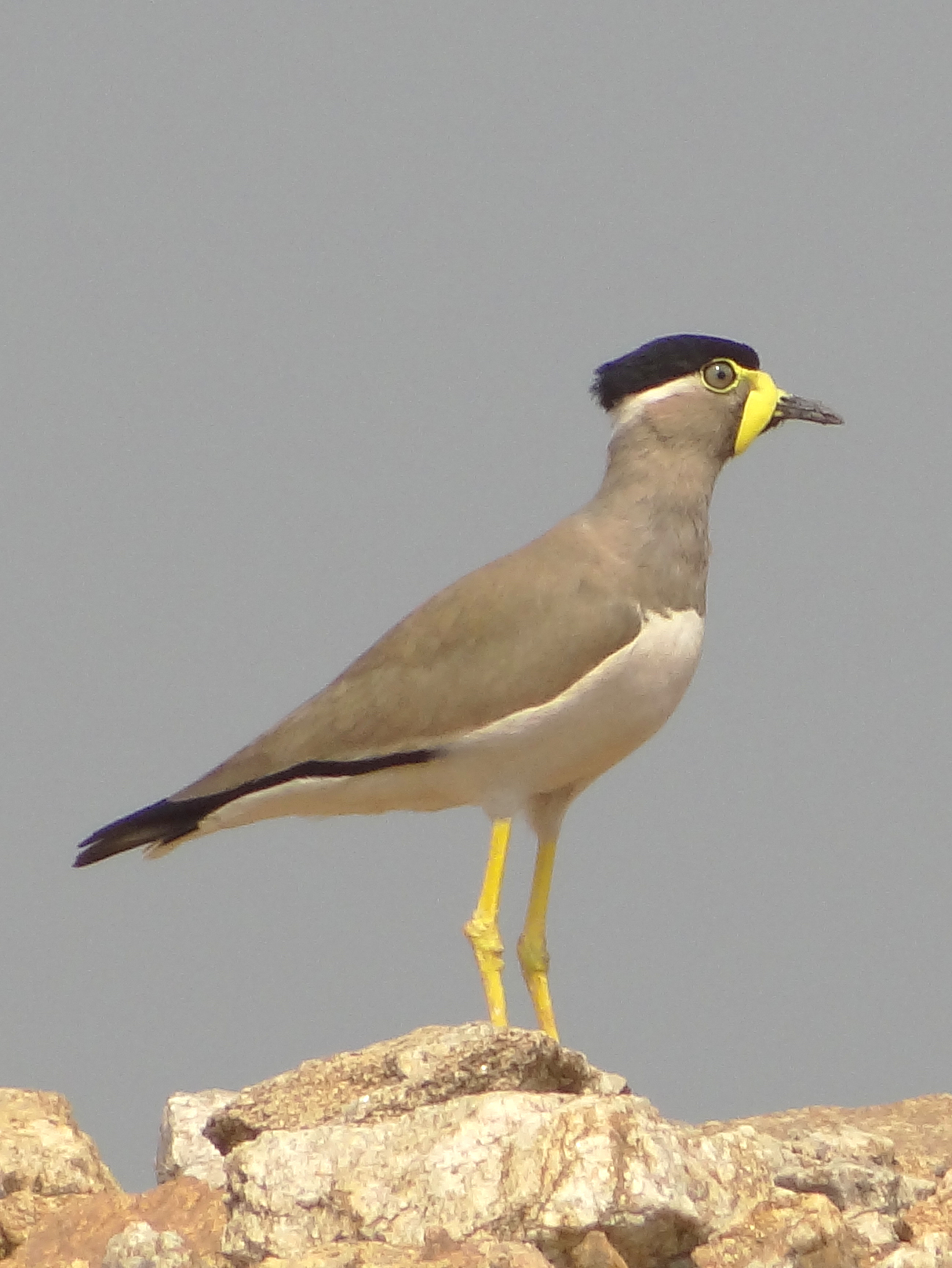 Yellow-wattled Lapwing ( Vanellus malabaricus)